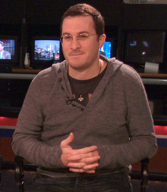 A photo I personally took of Darren Aronofsky when he visited San Diego to talk about his upcoming movie "The Wrestler." Please acknowledge "Phil Konstantin" as the creator of this photograph.